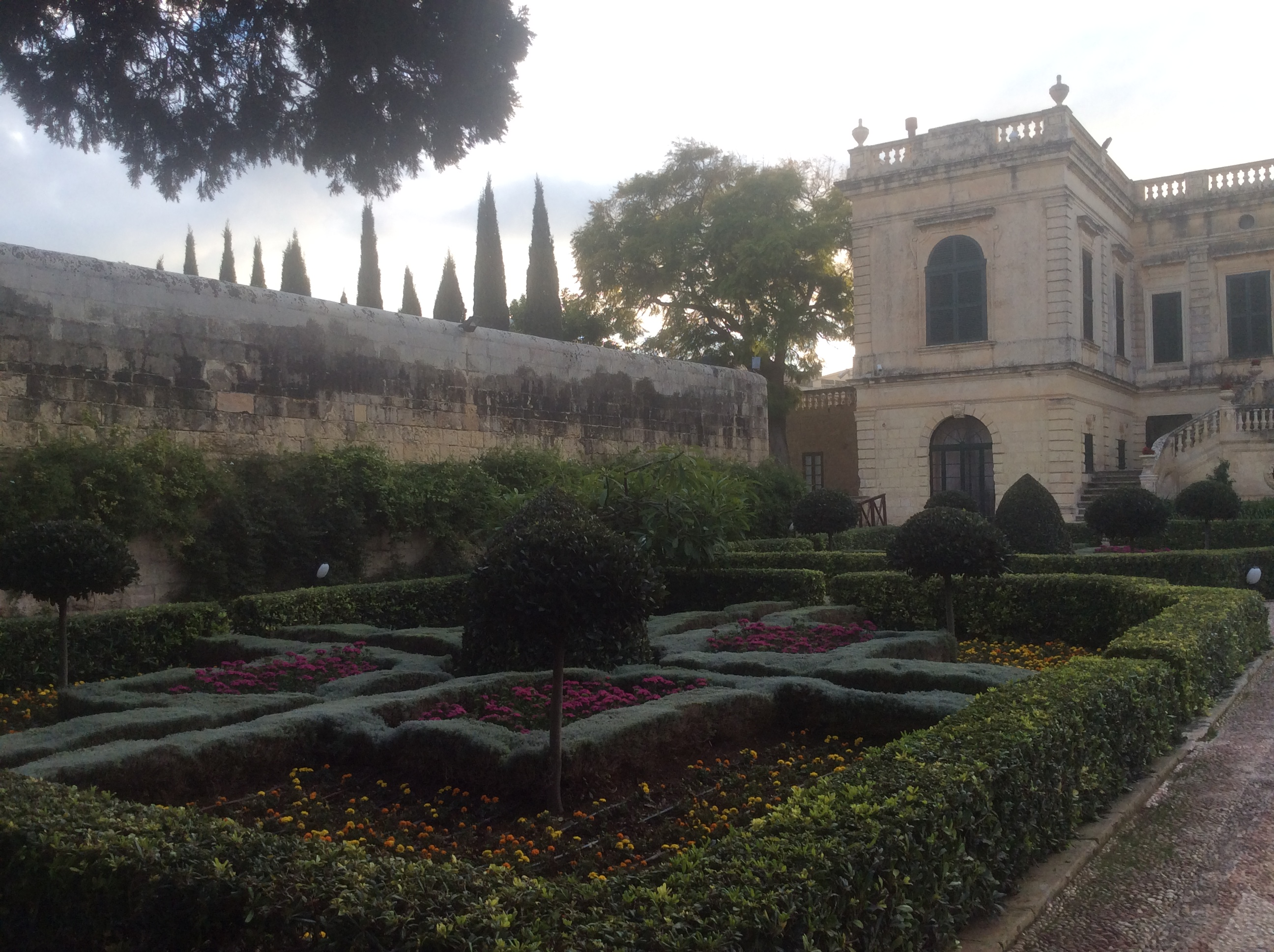 Villa Lija front Gardens